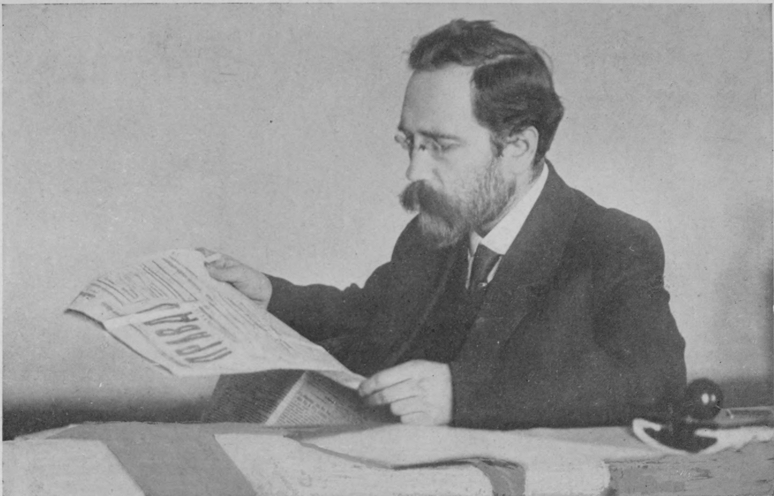 L. Kamenev, president of the Moscow soviet.